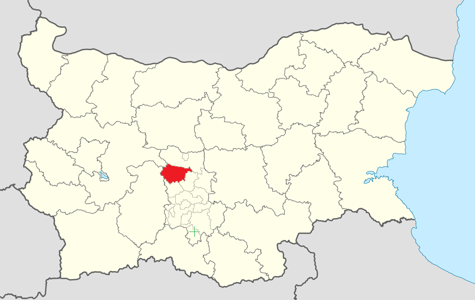 Location map of Hisarya Municipality within Bulgaria and Plovdiv province